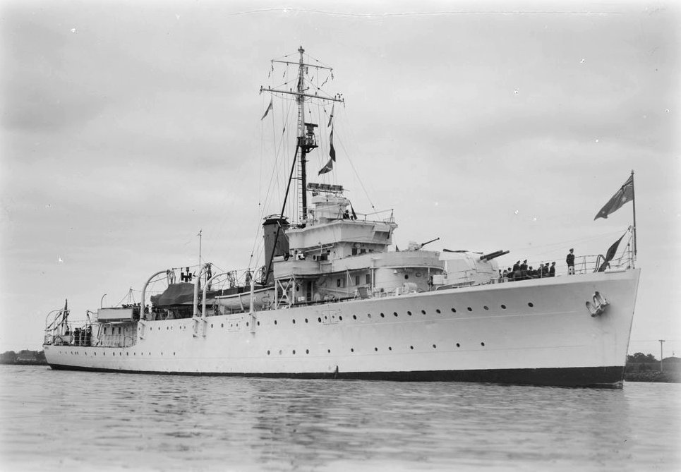 HMAS Warrego.